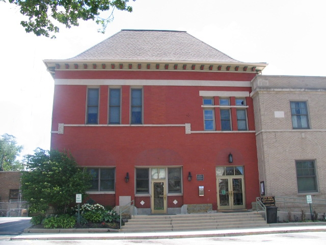 Village (now City) Hall, Blue Island, IL, built 1891, Edmund R. Krause, architect